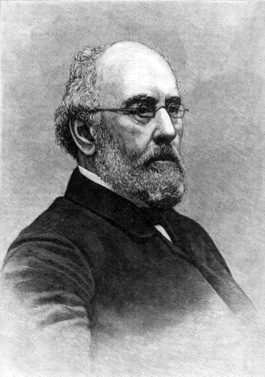 George Ripley, American transcendentalist. Illus. in: Harper's Weekly, v. 24, 1880, p. 468